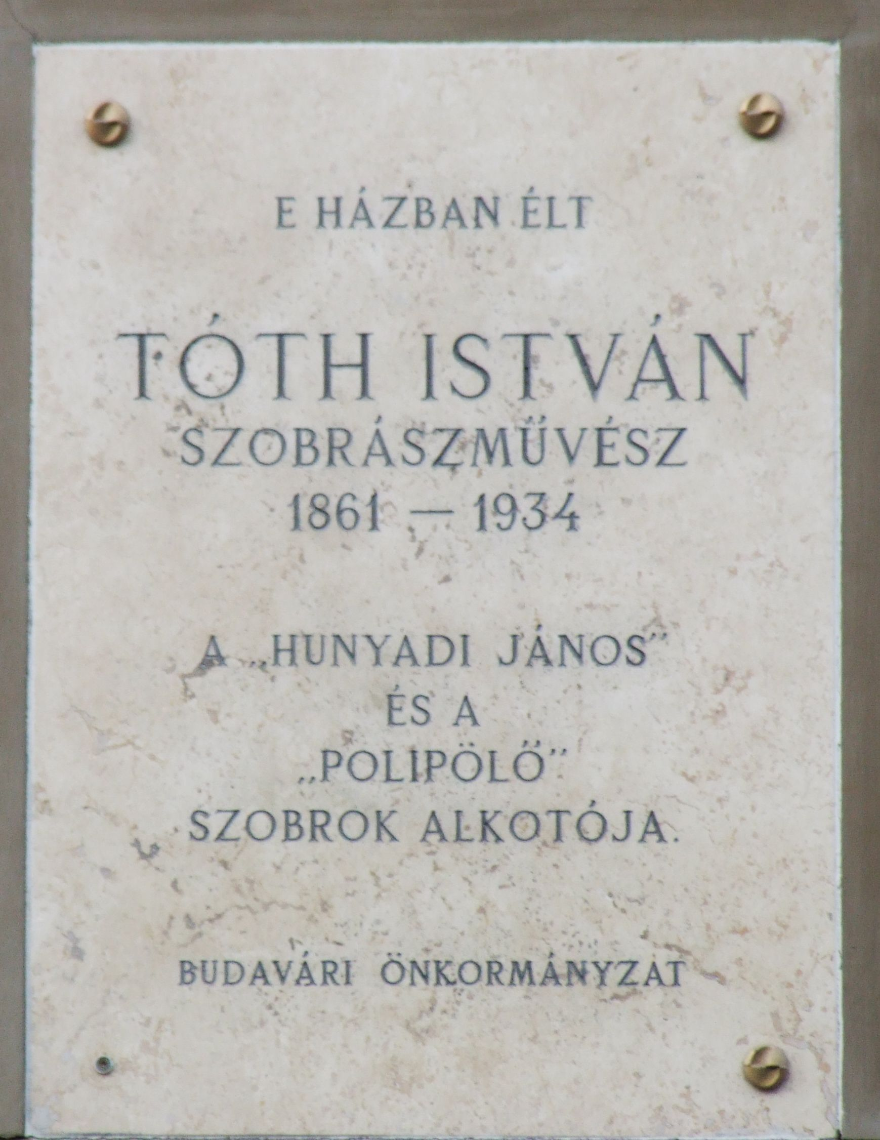 István Tóth (sculptor) commemorative plaque in Budapest District I, Döbrentei Street No 6.